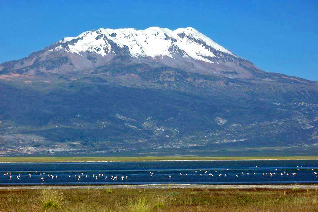 Volcano Sara Sara (Ayacucho - Peru) belongs to the Cordillera de Ampato